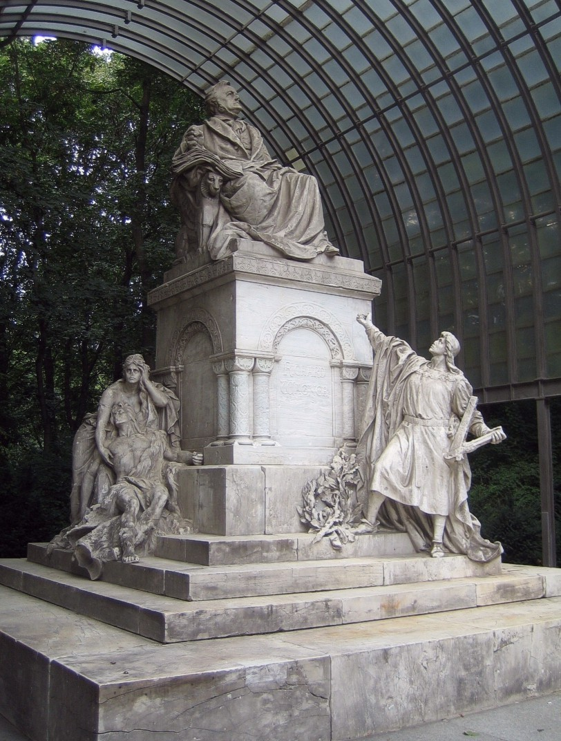 Berlin-Tiergarten. Memorial for the german composer Richard Wagner. General view.